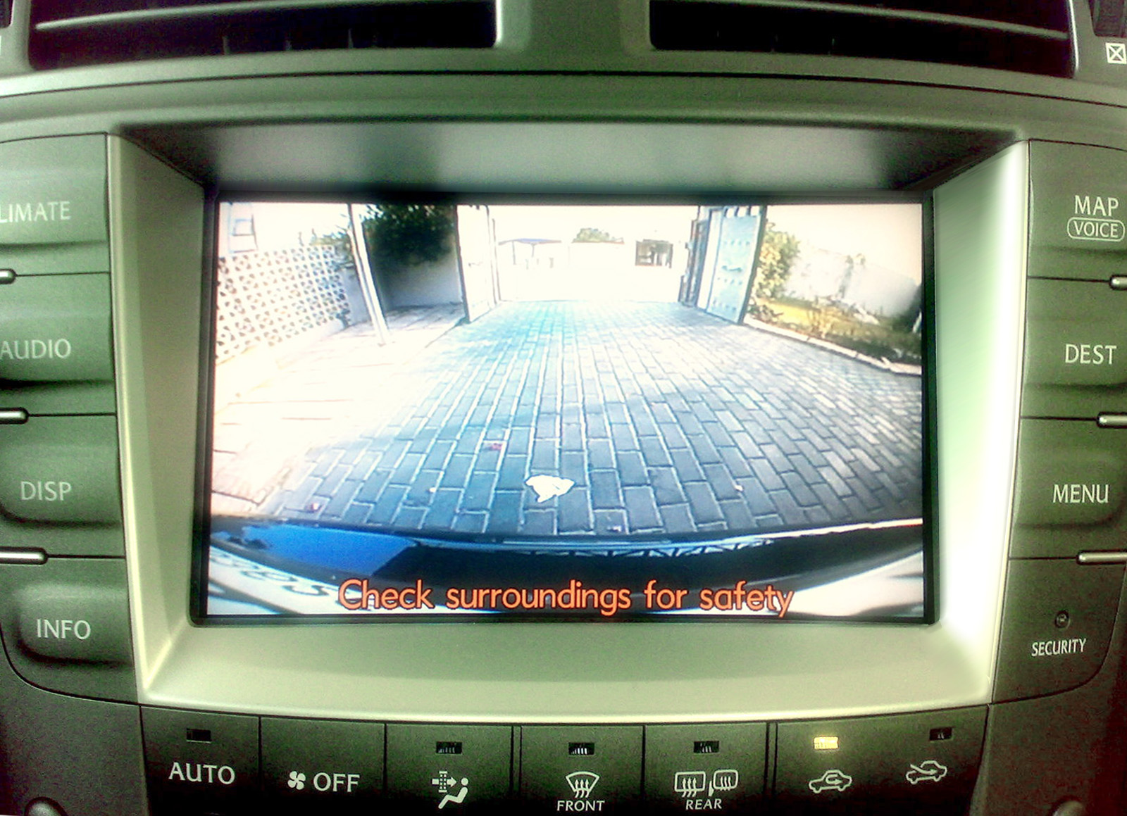 Lexus backup camera system in action; modified version of original image for skew